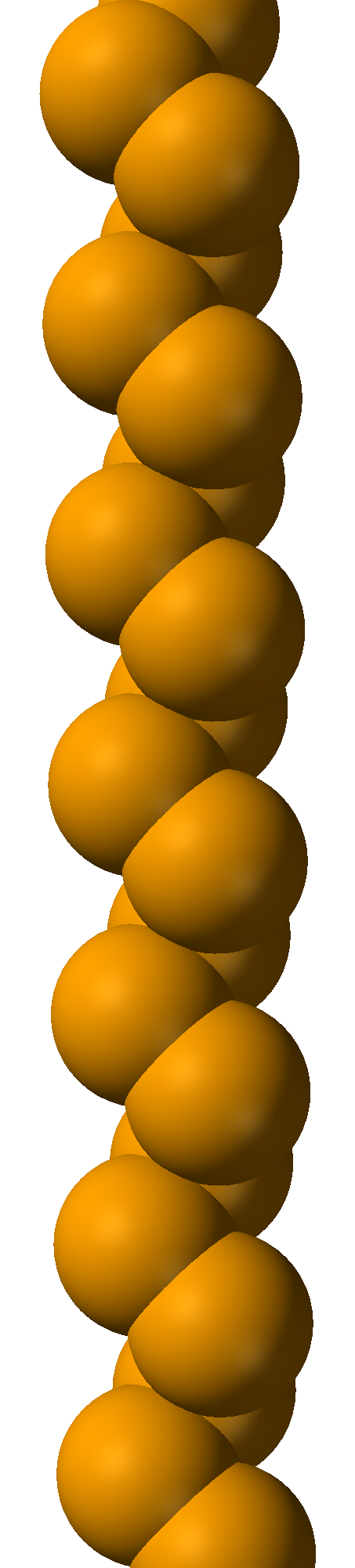 Space-filling model of part of an infinitely long helix in "grey" selenium, the semiconducting hexagonal crystalline form of Se.